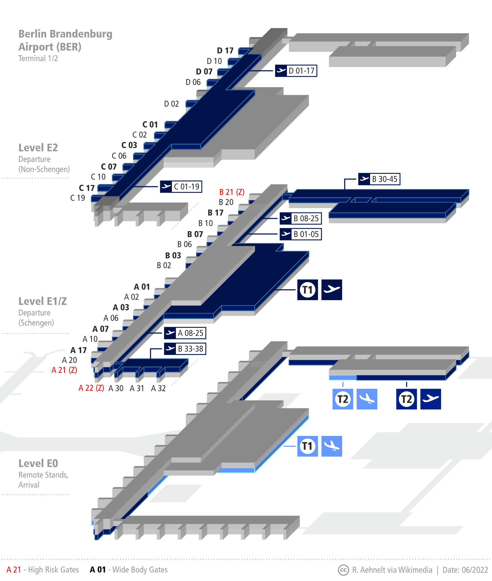 Berlin Brandenburg Airport